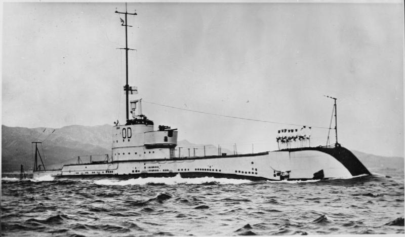 Photograph of British submarine HMSM Odin undereway off Hong Kong.